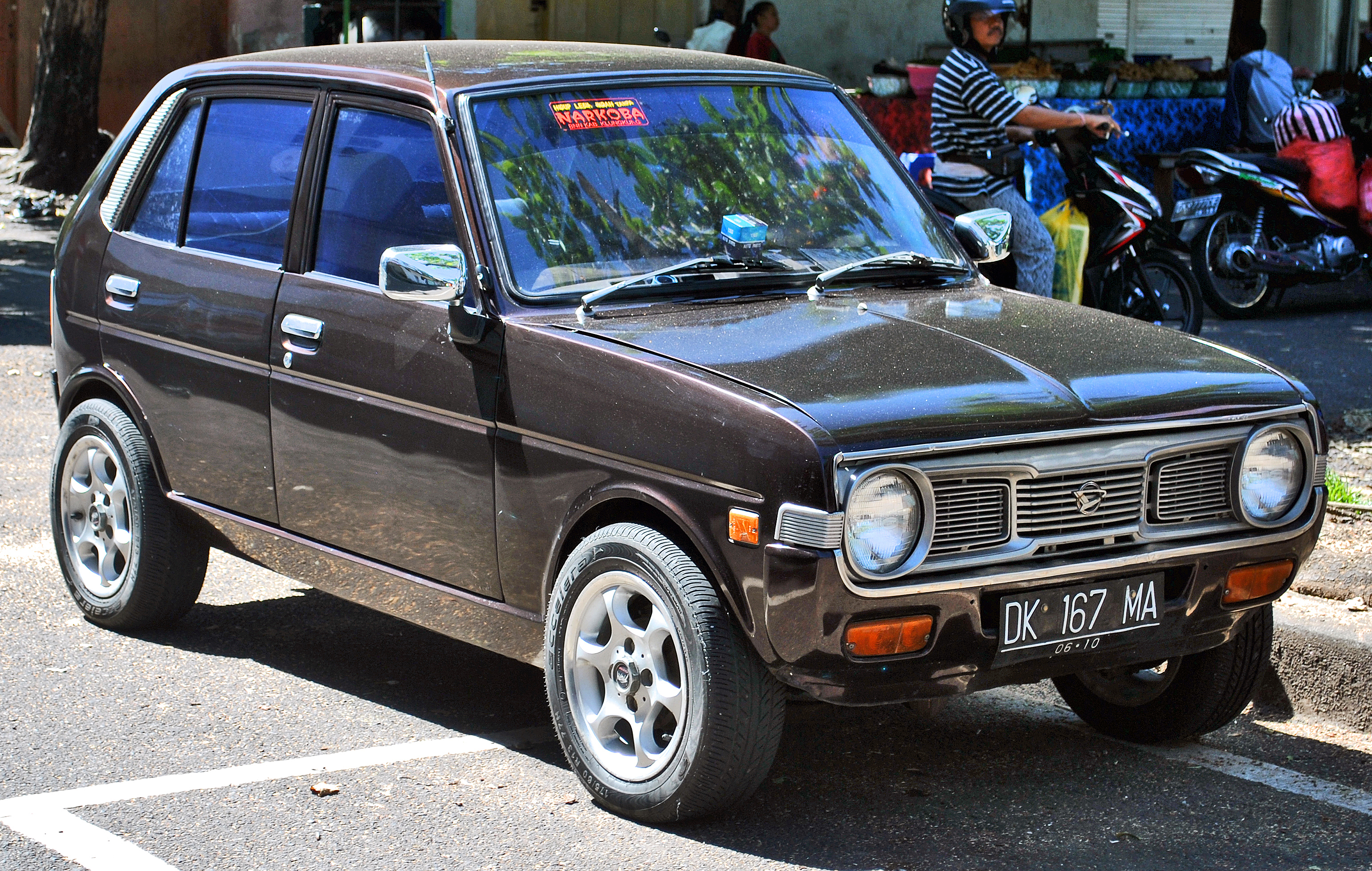 Front side view of Daihatsu 360 (also known as Fellow Max) spotted near local store in Semarapura, Bali, Indonesia. Very rare in Bali.